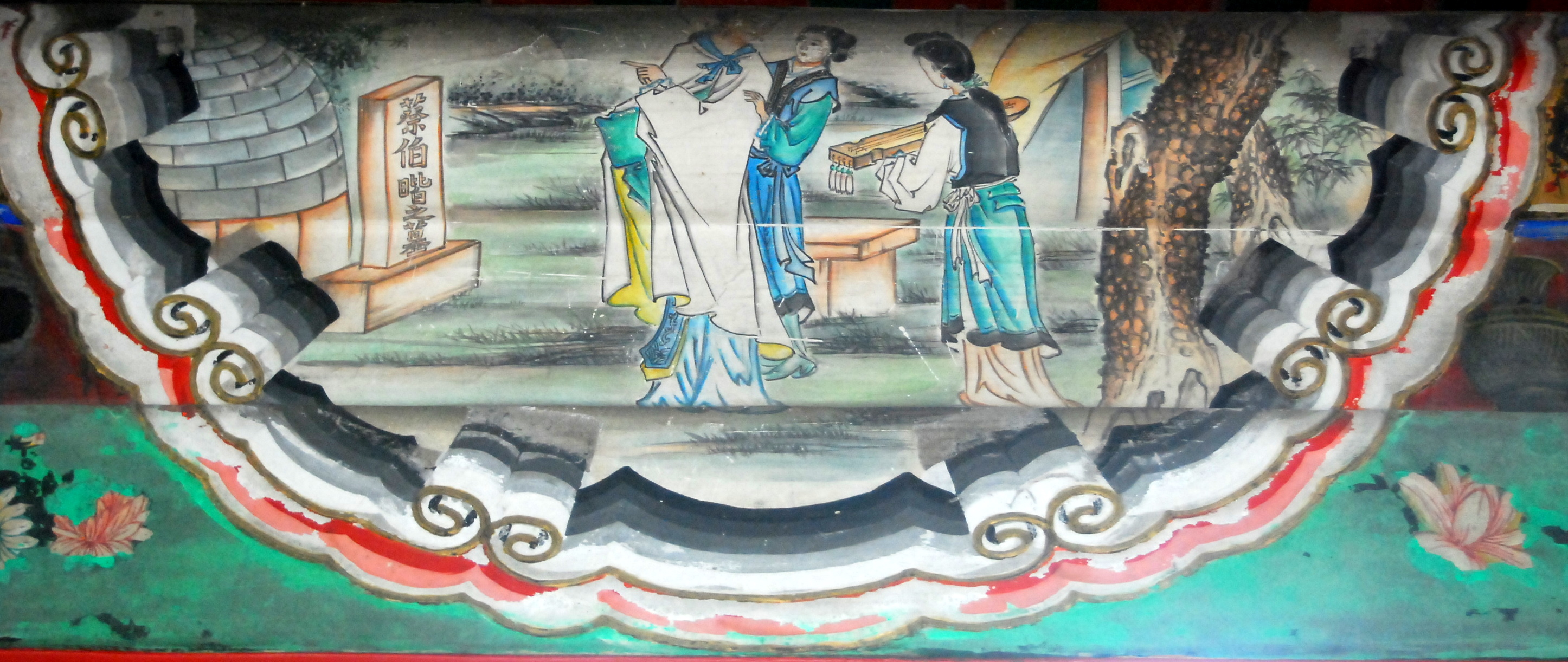 Painted Summer Palace on the promenade: Wenji's story - Ye Wenji Tomb